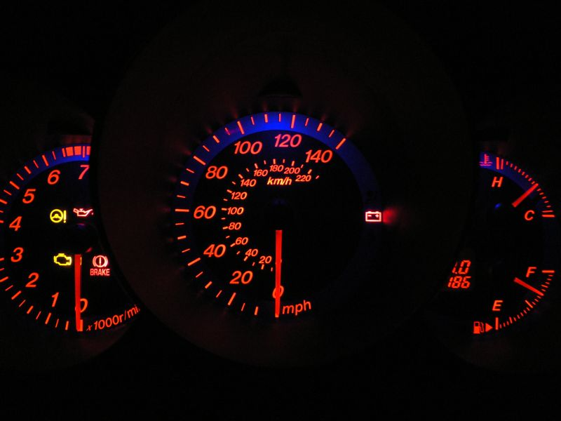 I haven't had a daytime moment to take a photo of my new Mazda3 (aka: salvation from the GTI from hell). So here's a night view of the dash. Unlike the GTI, all those warning diagnostic lights go off once I start up the engine. :)